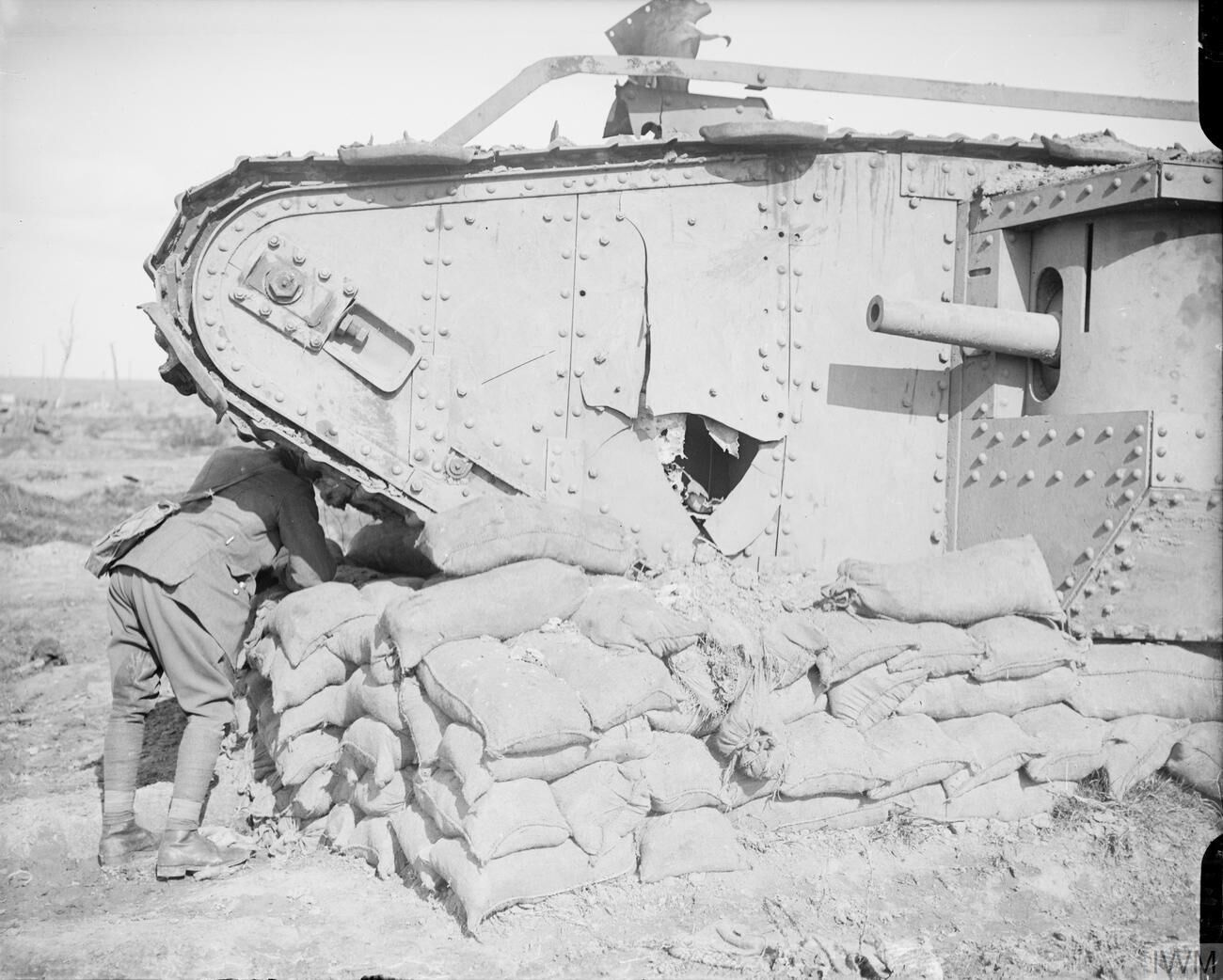 The Battle of Passchendaele, July-november 1917 Tank knocked out in the Third Battle of Ypres used as the roof of a dug out. Zillebeke, 20 September 1917.